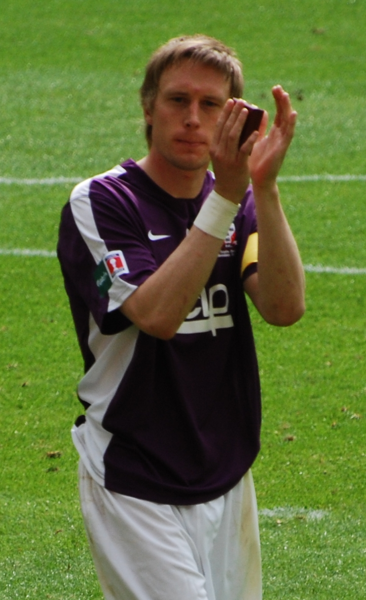 Danny Parslow after playing for York City against Stevenage Borough at Wembley Stadium, London on 9 May 2009